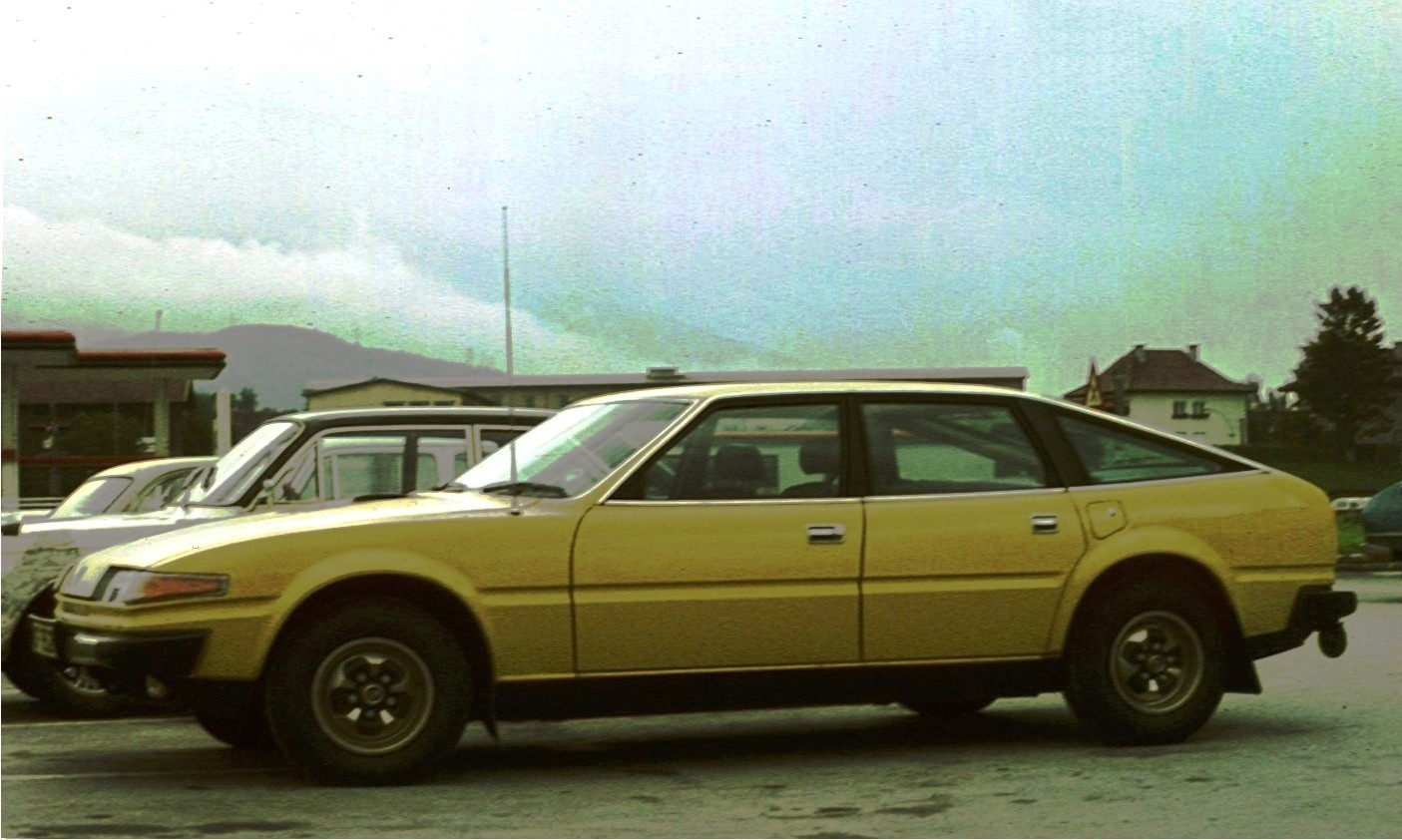 One of the first Rover SD1s.